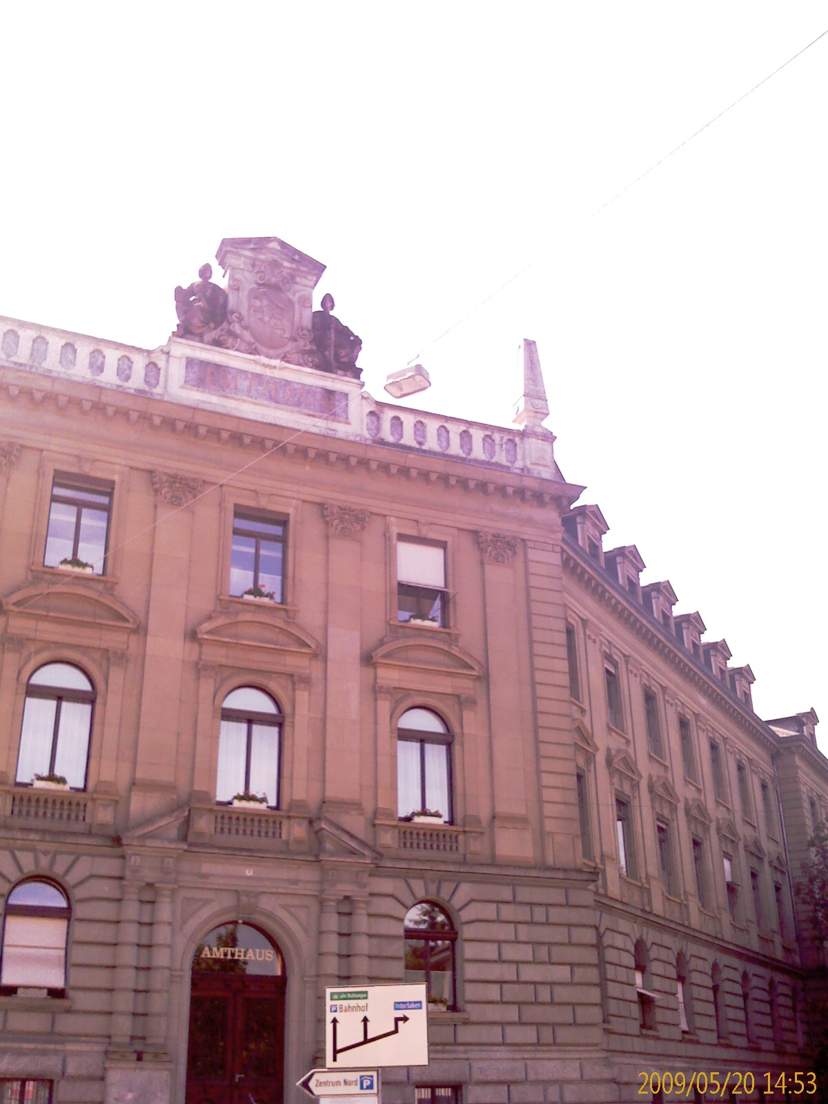 Prefect office of the district of Berne, canton of Berne, SwitzerlandEsperanto: Prefektejo de Berno, Kantono Berno, Svislando